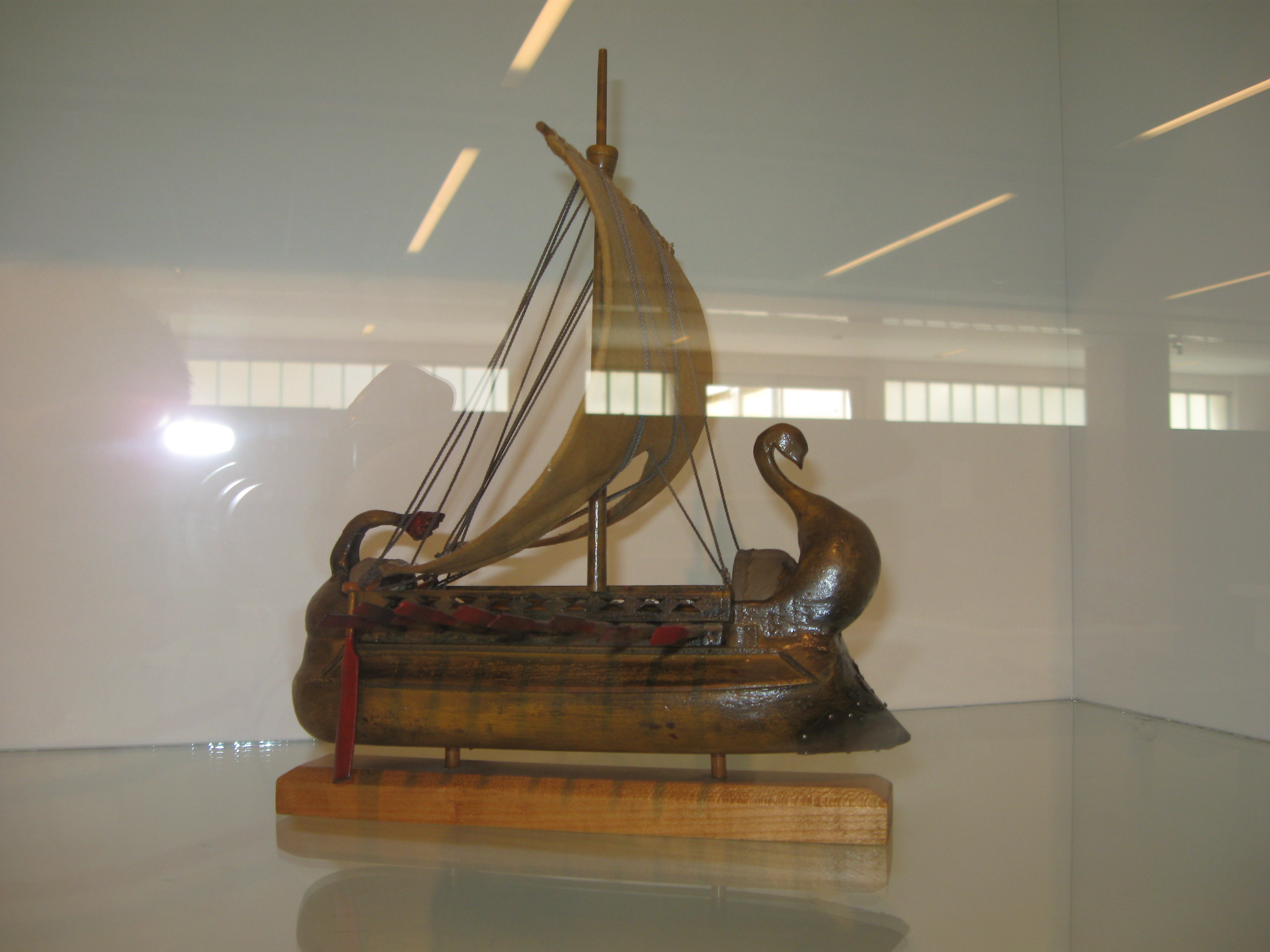 Liburna. Archeological museum of Zadar, Underwater Archaeology Department